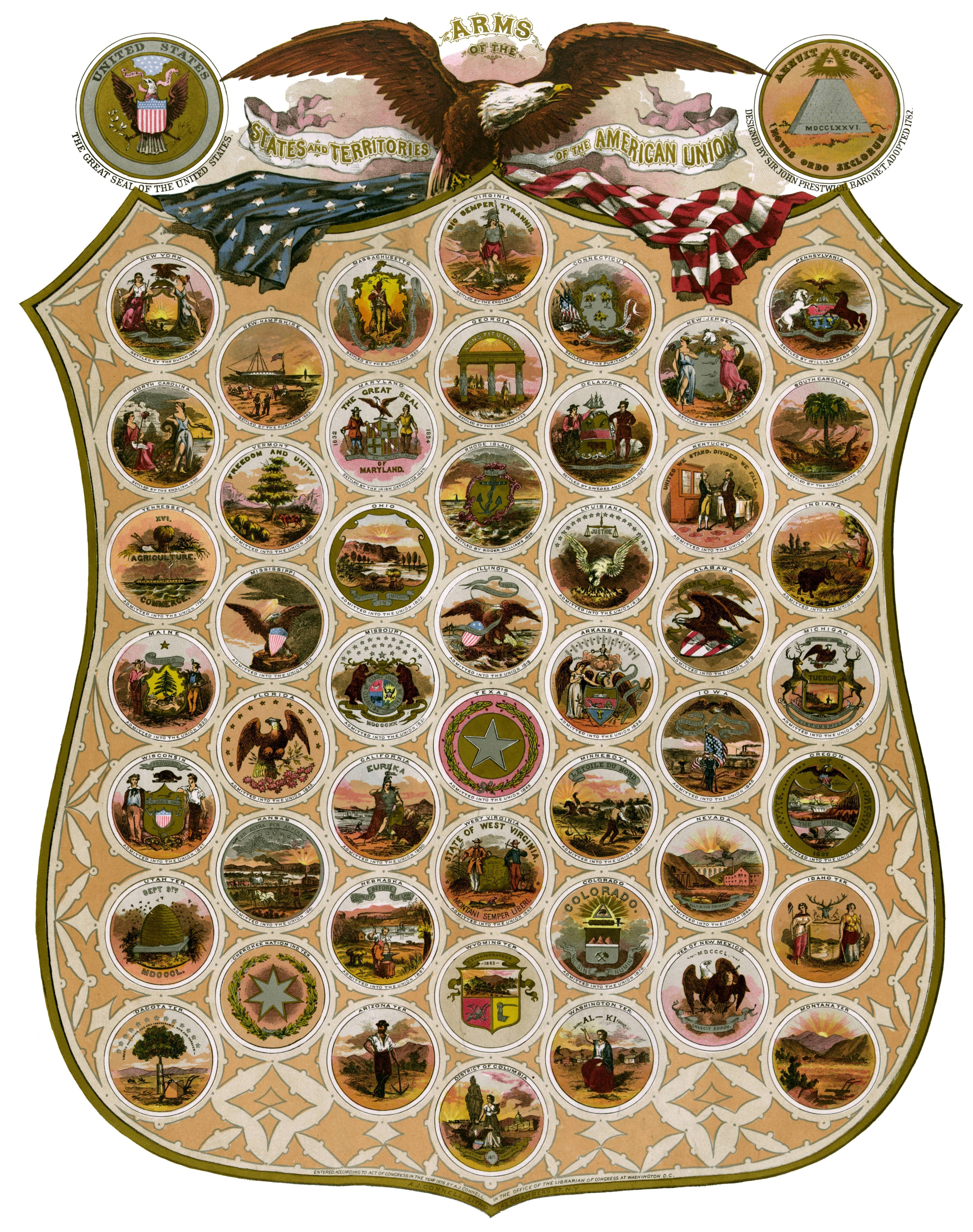 Arms of the states and territories of the American union in 1876 (48 states).